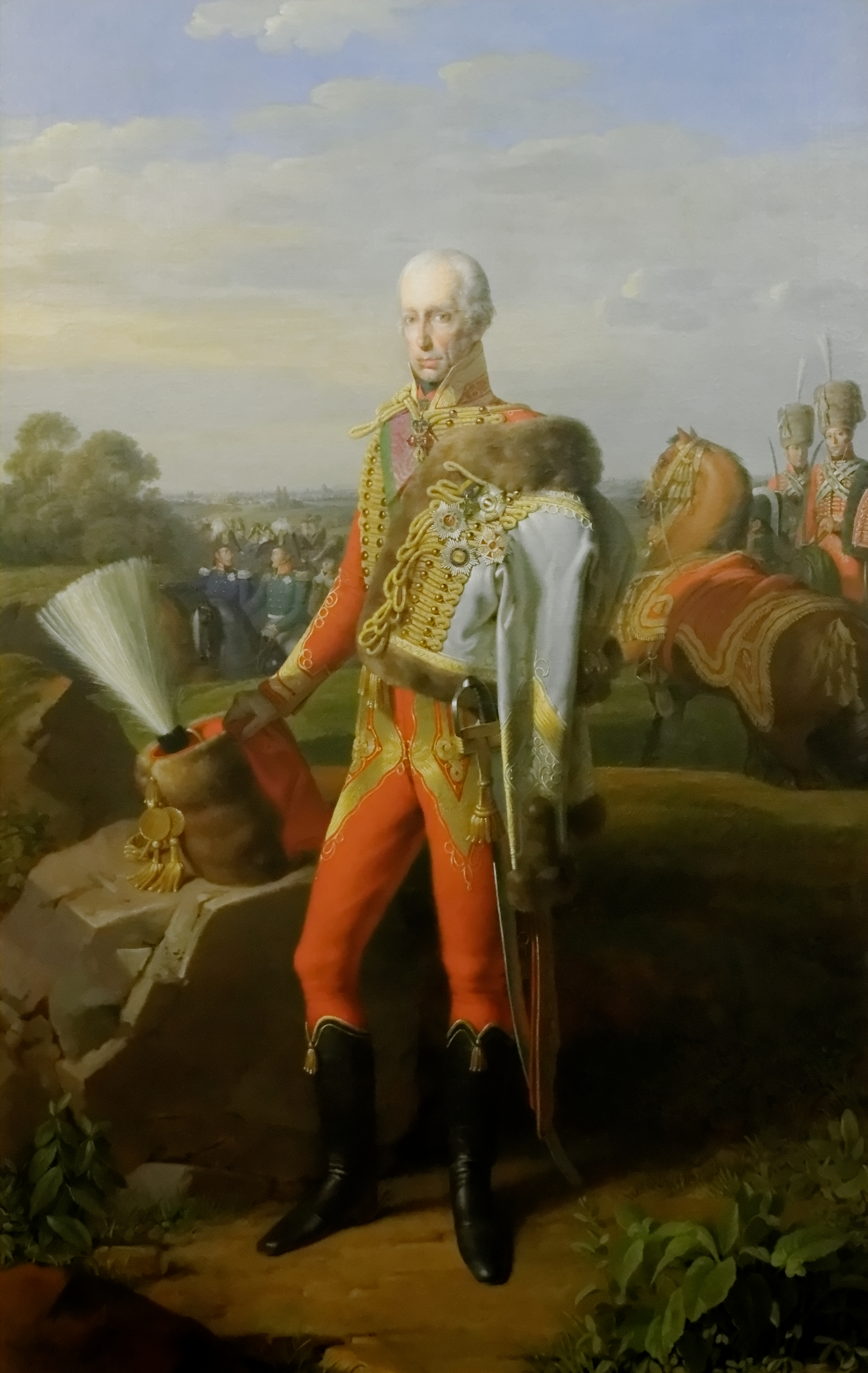 Francis II, Holy Roman Emperor. Exposed in Hungarian National Museum, Budapest.